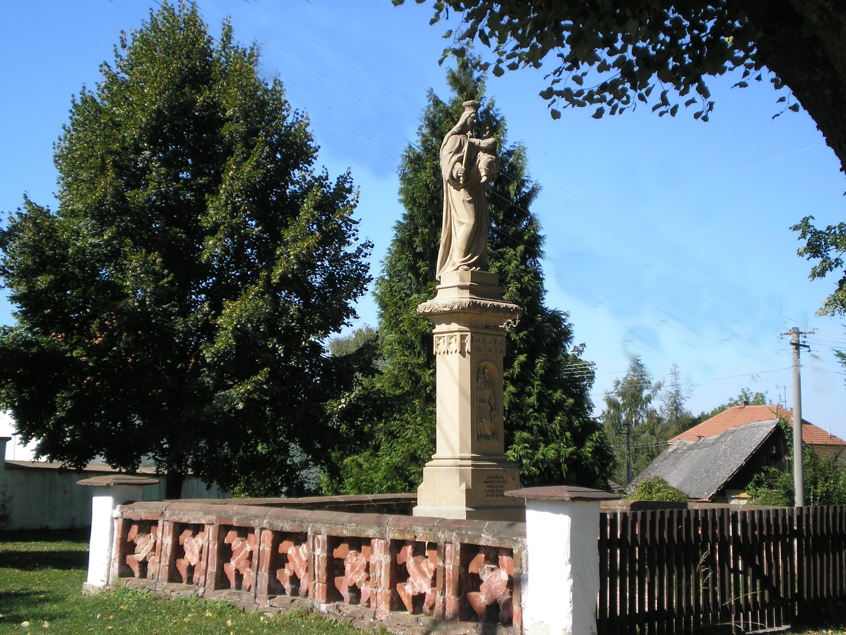 Svinčany, Madona